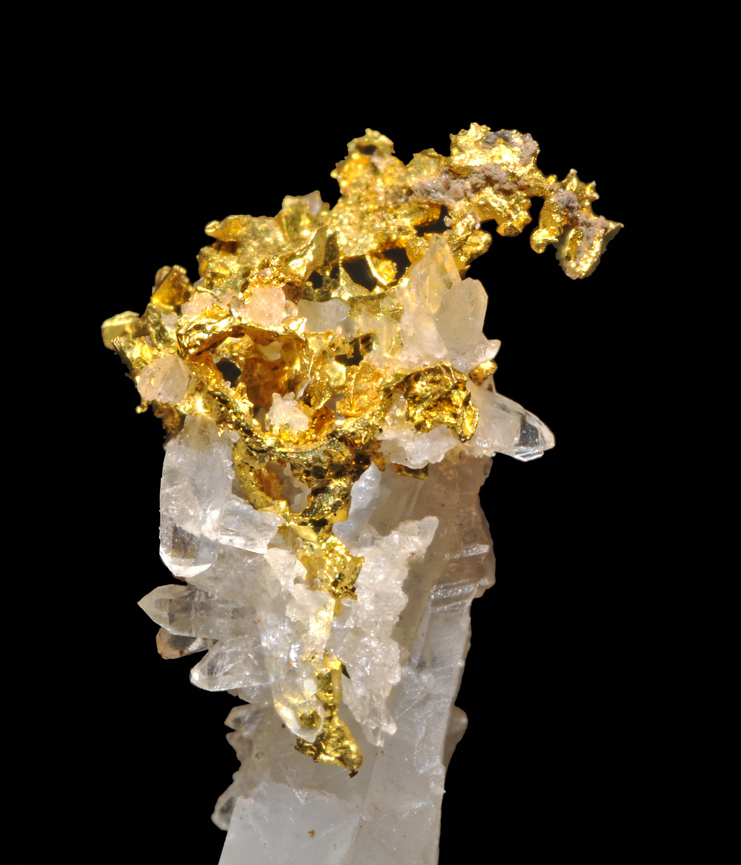 crystals of gold, crystals of quartz : Fenillaz lode, Brusson Mine, Brusson, Ayas Valley, Aosta Valley, Italy